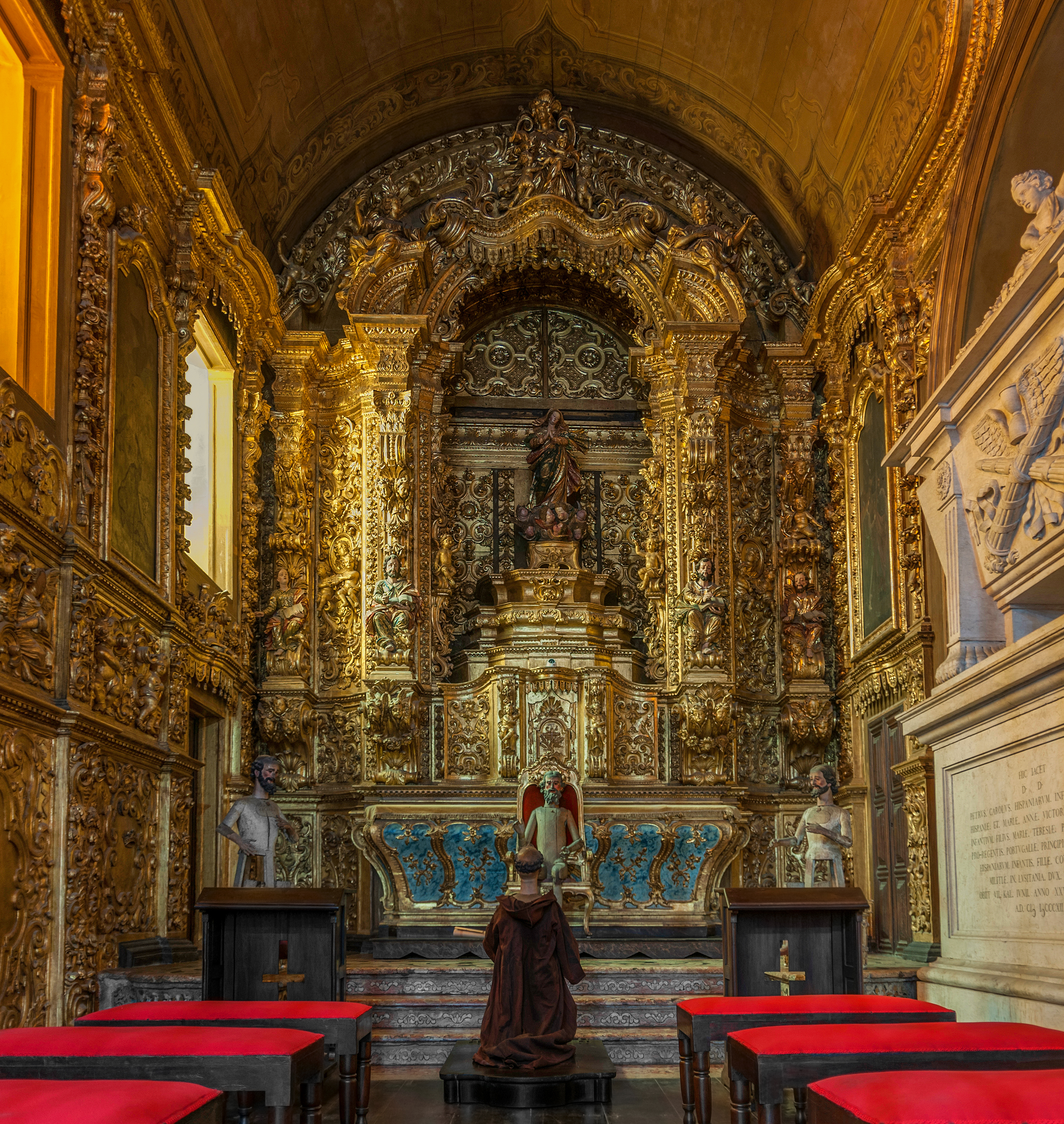 Baroque chapel inside the church of St Antonio Convent in Rio de Janeiro